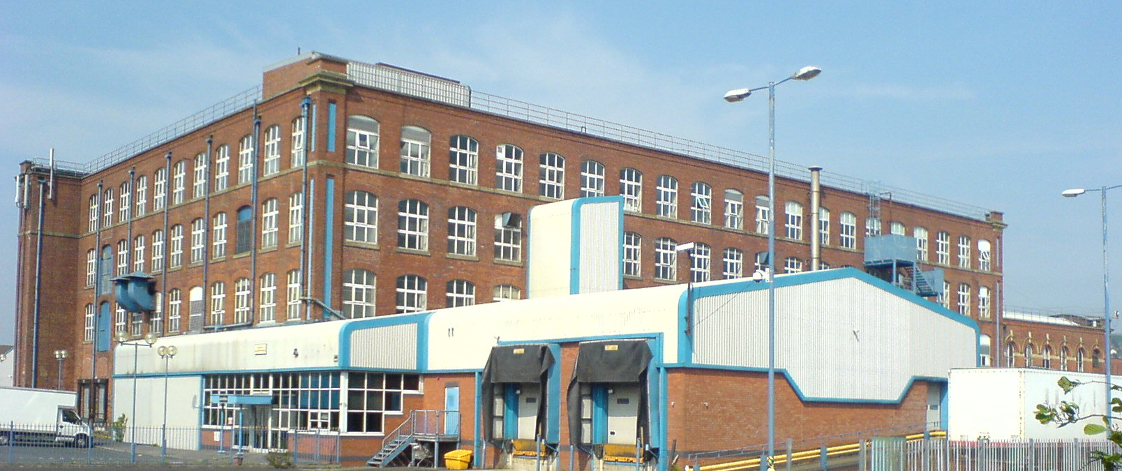 Duke Mill in Shaw and Crompton taken on 2007-04-29 from Refuge Street.